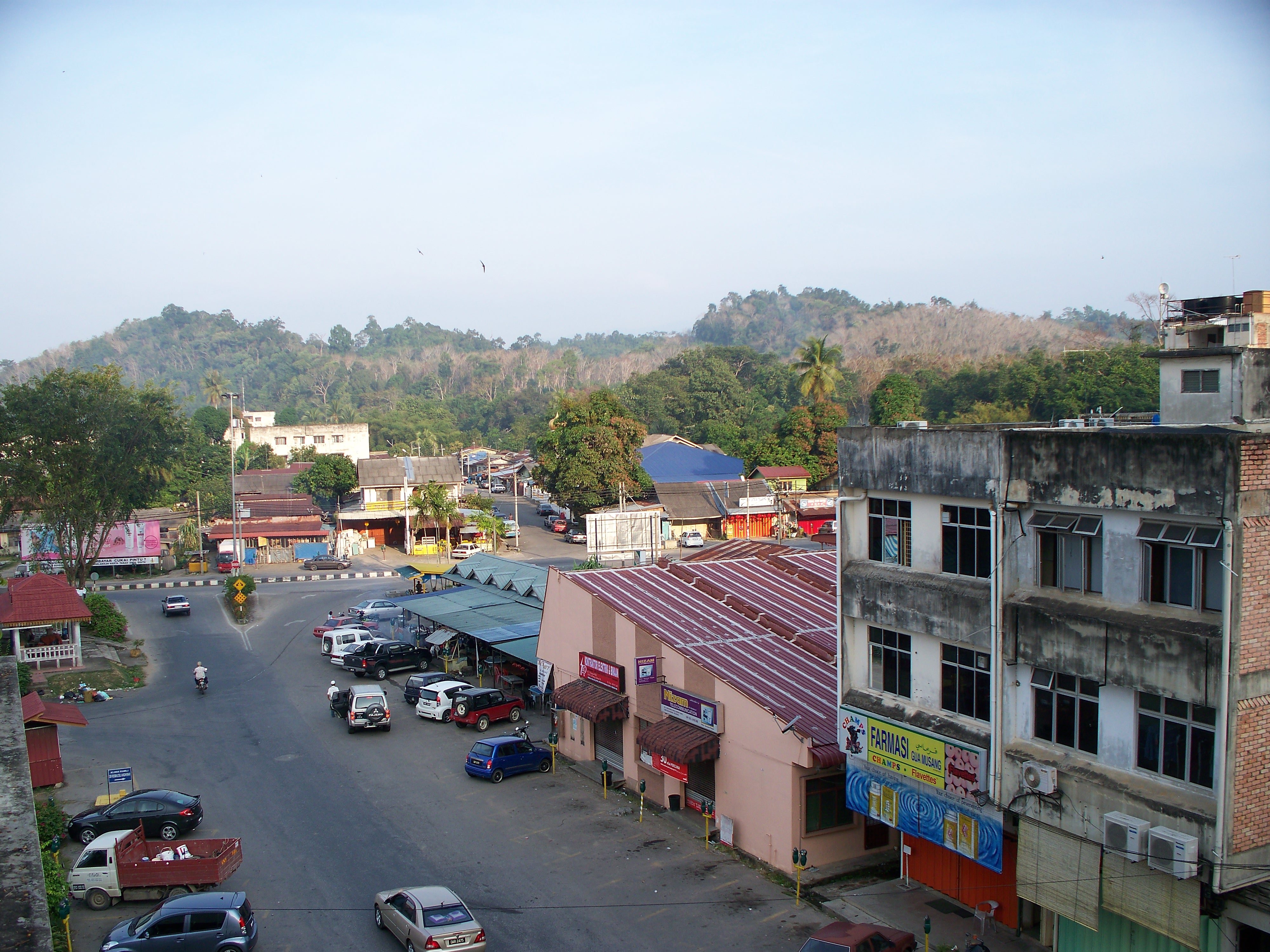 A view of the town of Gua Musang, Kelantan, Malaysia